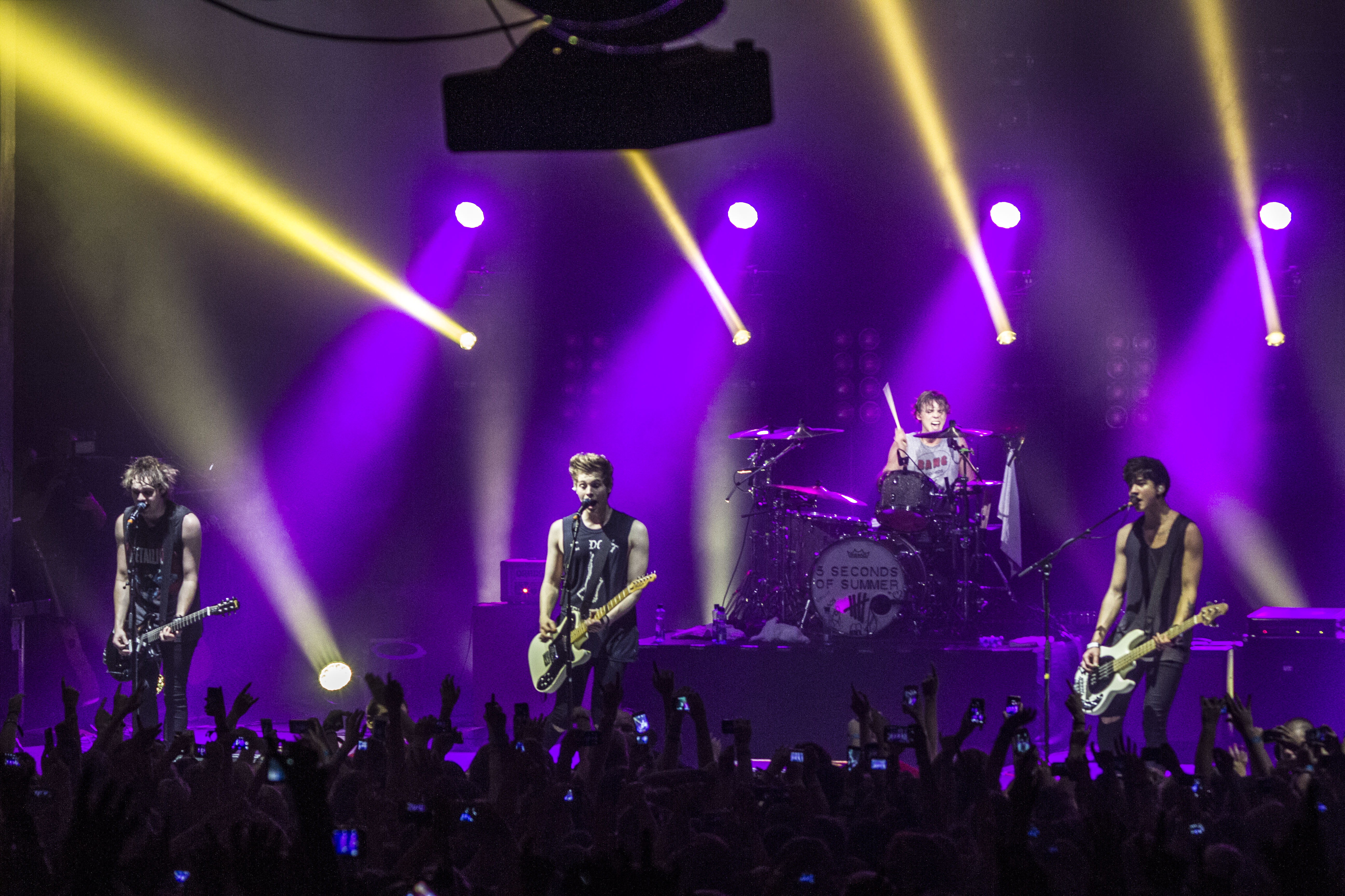 5 Seconds of Summer playing a live show in Sydney on 30 April 2014